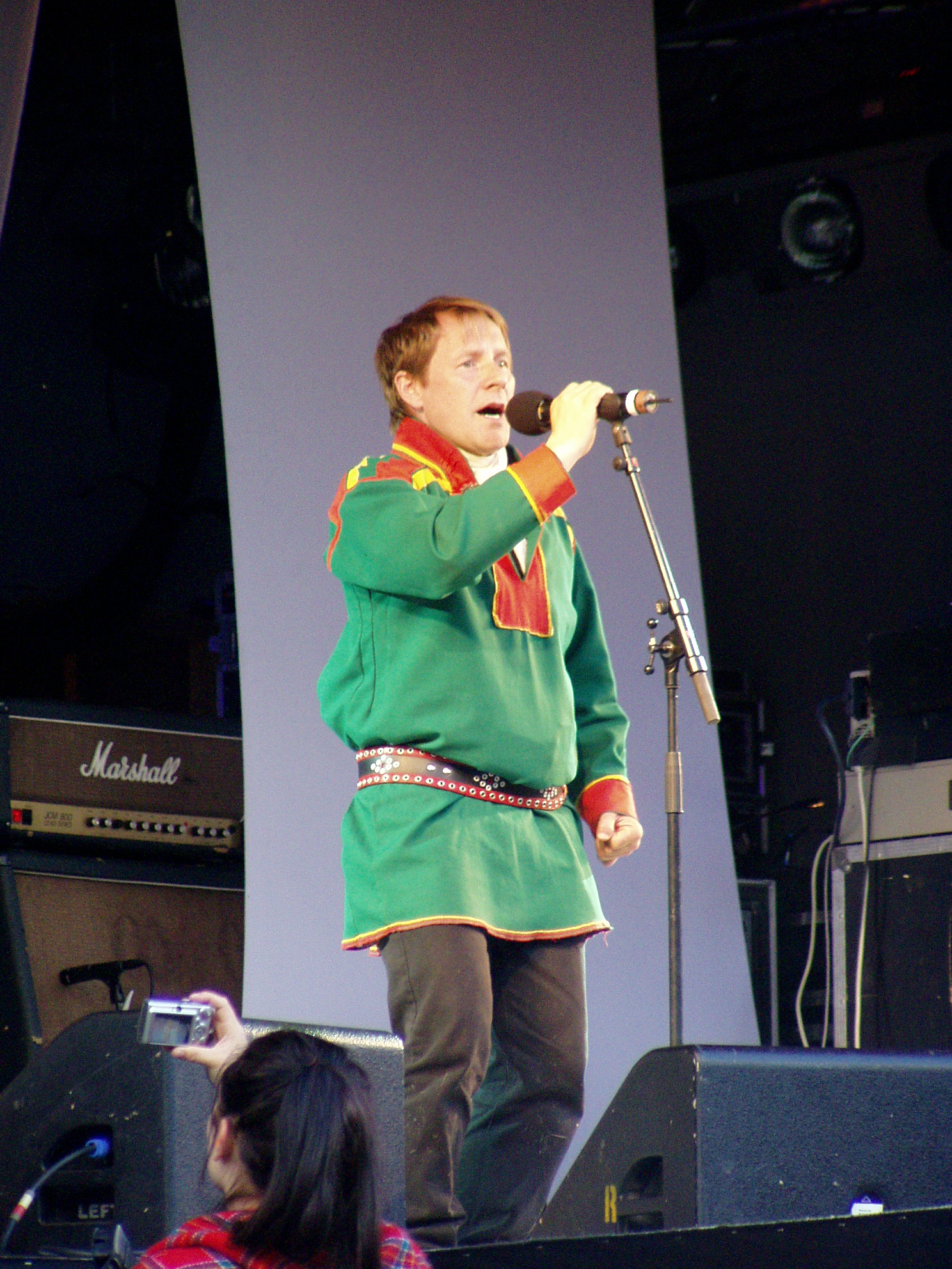 Ande Somby from Vajas on Festival of Riddu Riđđu of natural cultures in Norway, 2007